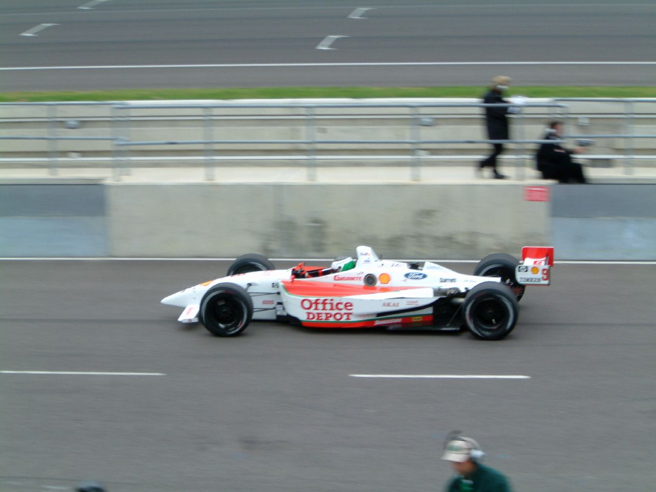 Michel Jourdain Jr. driving for Team Rahal at the 2002 Sure For Men Rockingham 500